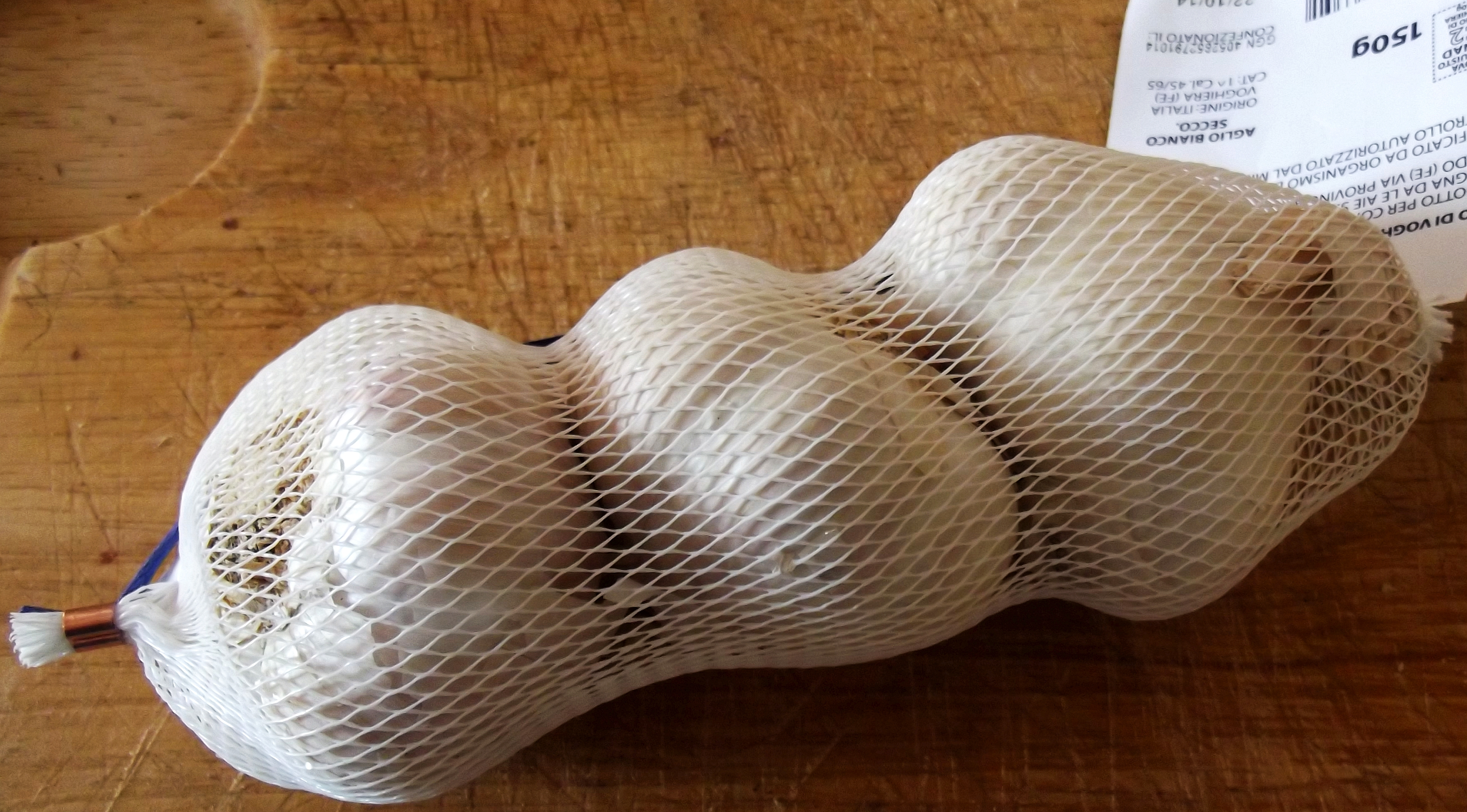 Aglio di Voghiera: supermarket packaging